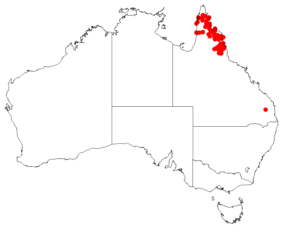 Hakea persiehana Occurrence data downloaded from Australasian Virtual Herbarium on 22 November 2018 using